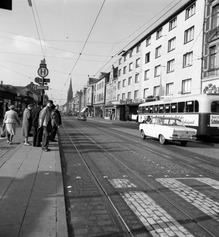 Information added by Wikimedia users.